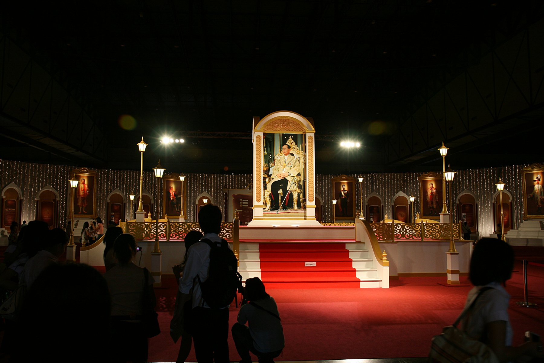 Exhibition to Celebrate the Auspicious Occasion Of the 80th Birthday Anniversary Of His Majesty the King 5th December 2007 at IMPACT Muang Thong Thani during 1-10 December 2007.